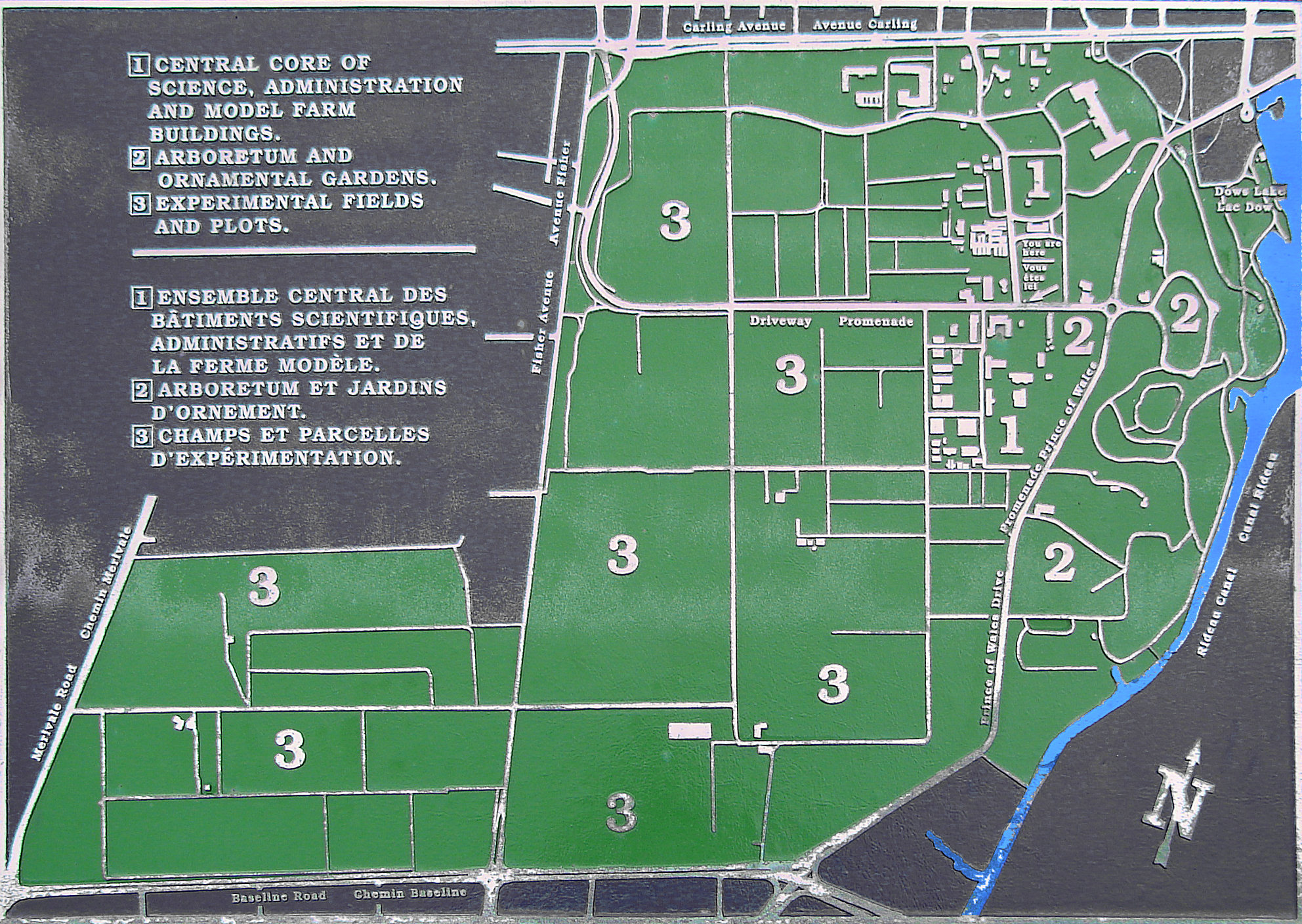 Map of Central Experimental Farm, Ottawa, Ontario, Canada